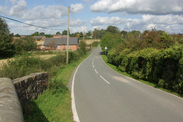 Road through Bettisfield, near to Bettisfield, Wrexham/Wrecsam, Wales. Seen from Bettisfield Bridge looking towards the church and the site of the former station.